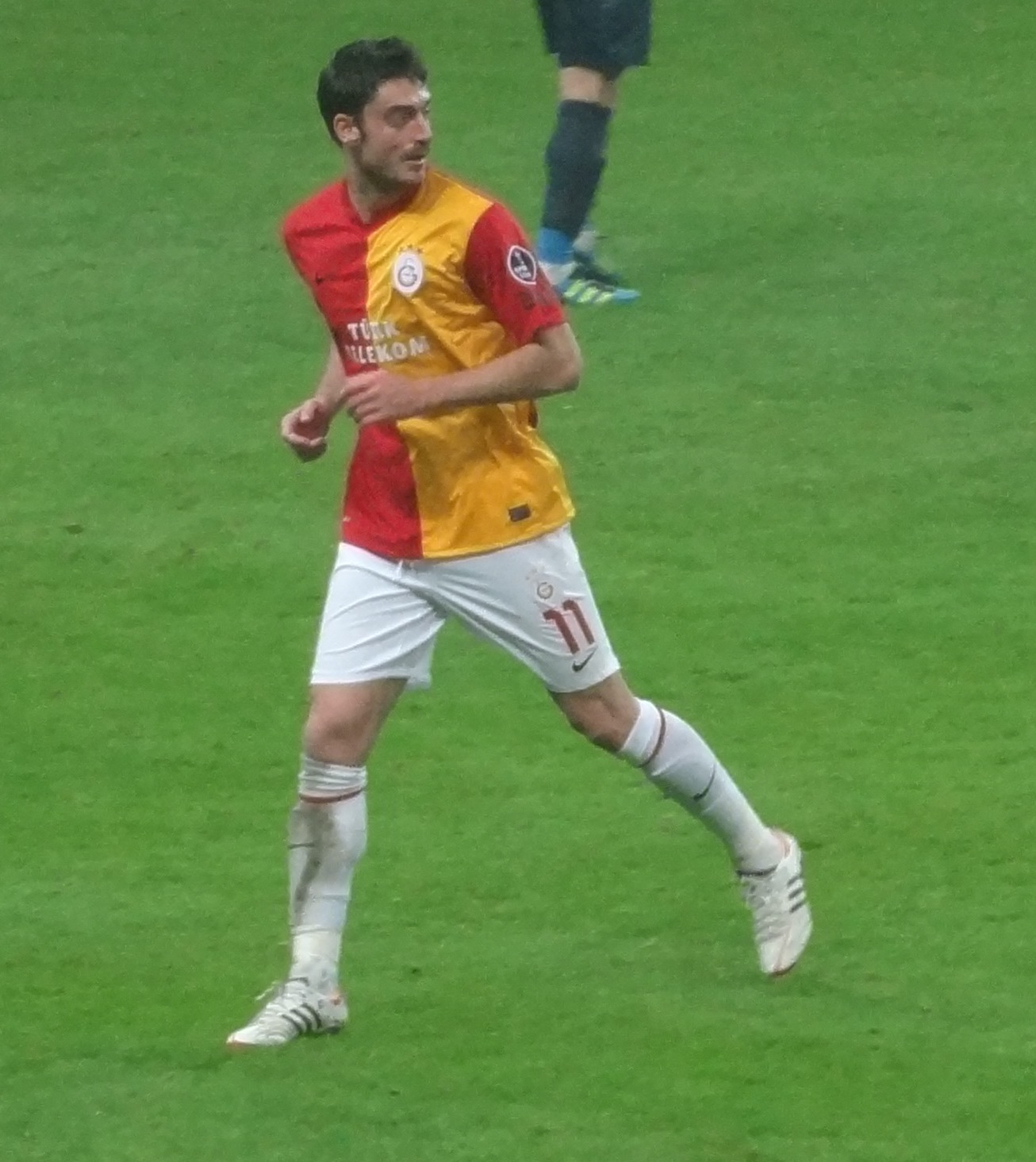 Riera playing against MKE Ankaragücü he scored his first goal and he made two asist at that match